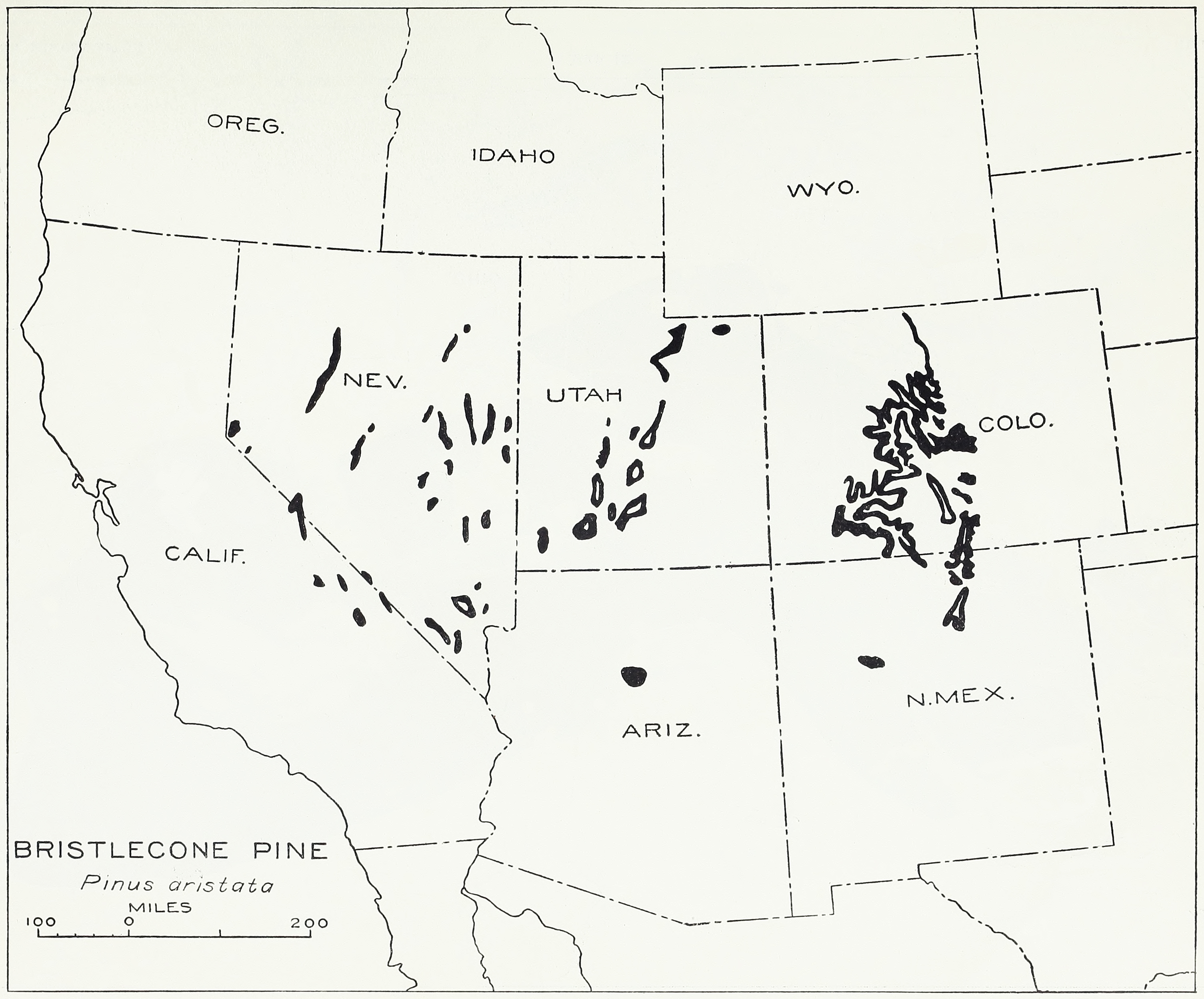 Title: The distribution of important forest trees of the United States Year: 1938 (1930s) Authors: Munns, E. N. (Edward Norfolk), 1889-1972 Subjects: Forests and forestry; Trees Publisher: Washington, D. C. : U. S. Dept. of Agriculture Text Appearing Before Image: 15 Text Appearing After Image: '